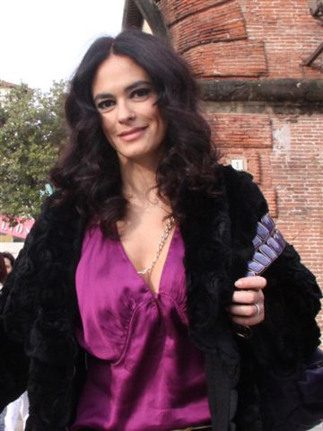 Italian actress Maria Grazia Cucinotta